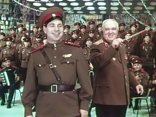 A screenshot of my father's performance of the song "Dark Eyed Cossack Girl" (Chernoglazaya Kazachka), 1969. This video is a part of the musical movie "New Year's Abduction".